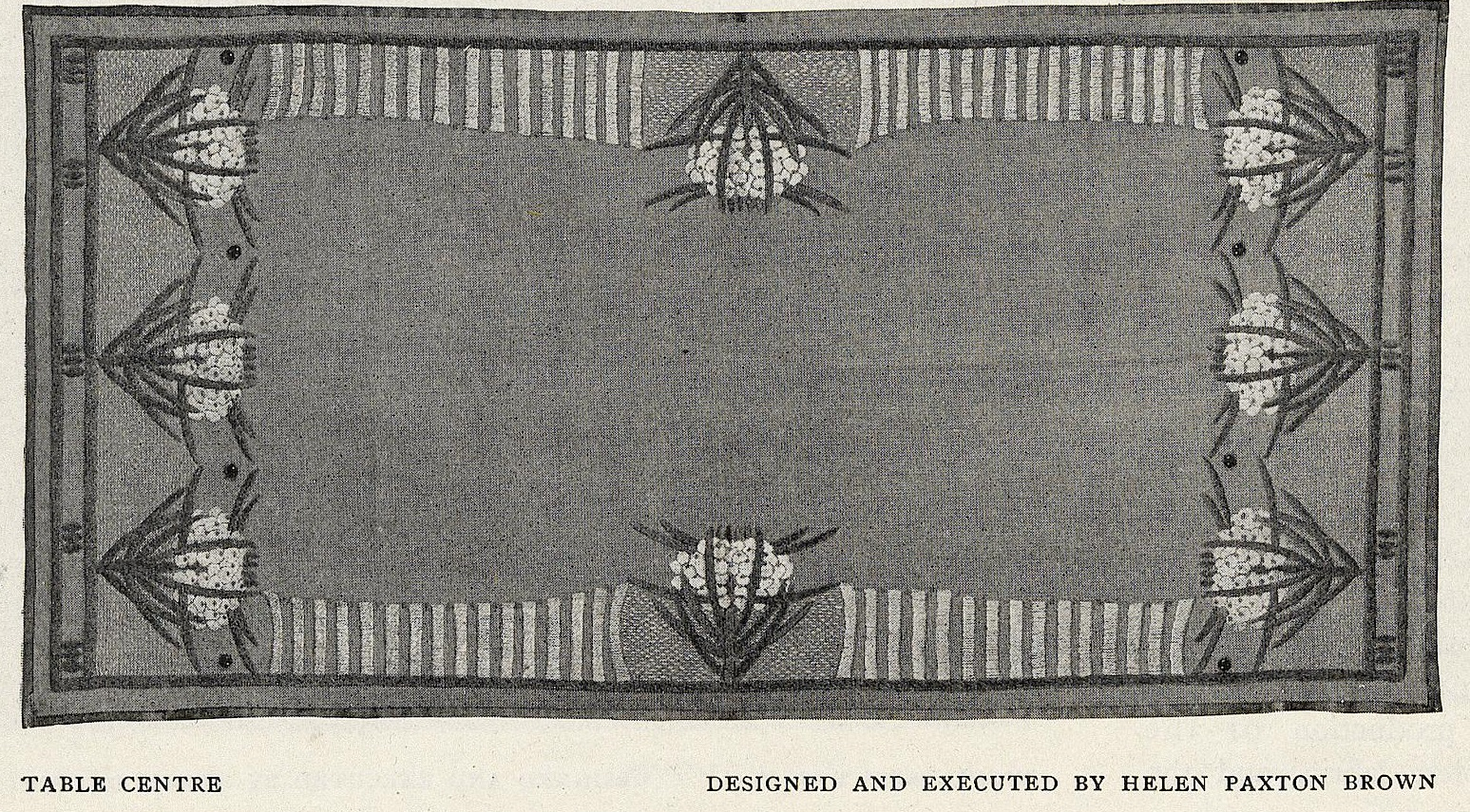 Table Centre by Helen Paxton Brown from Studio Magazine vol 50 (1910)